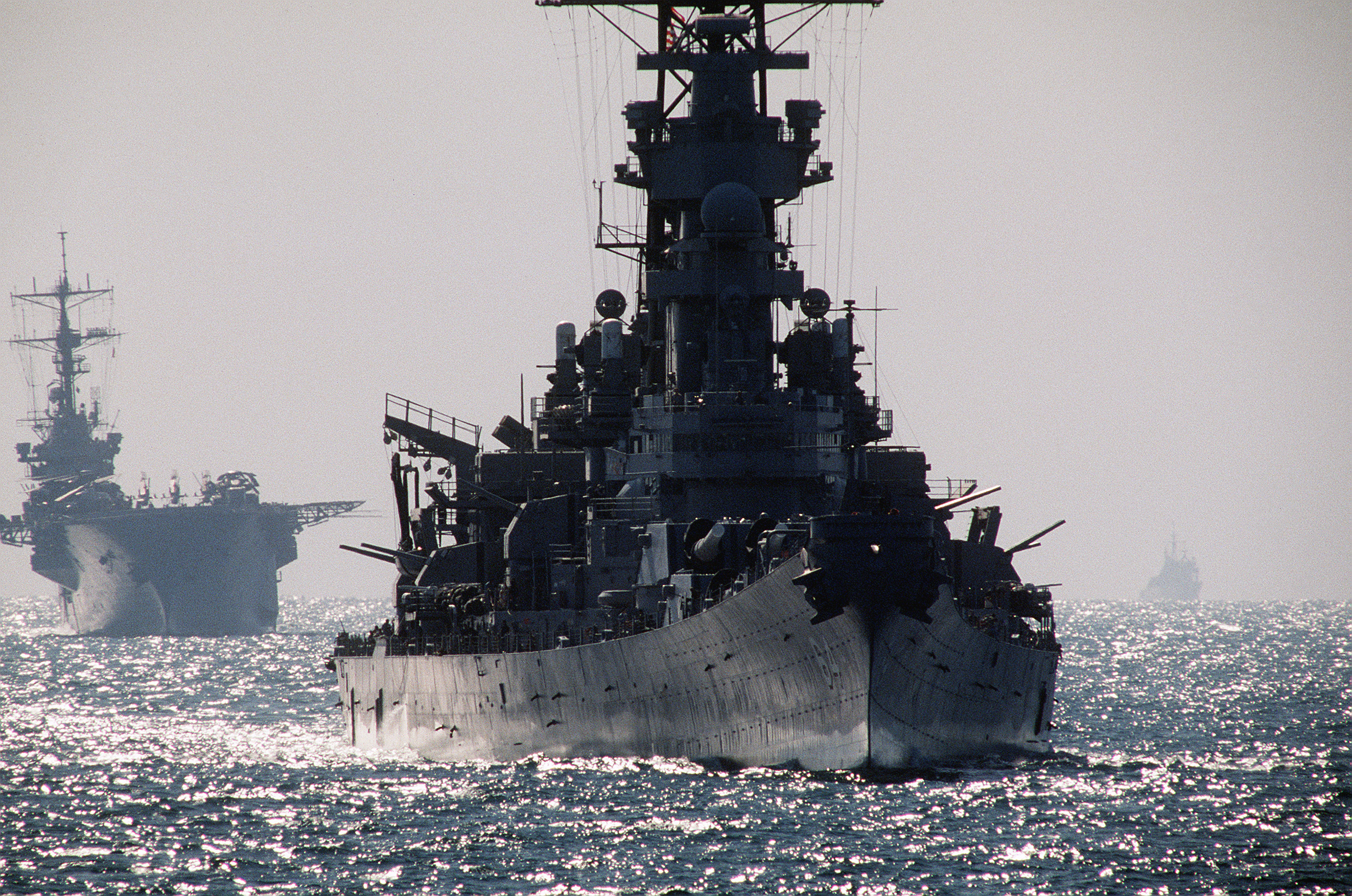 A starboard bow view of the battleship USS WISCONSIN (BB-64) followed by the amphibious assault ship USS TRIPOLI (LPH-10) as the two vessels patrol as part of a multinational force stationed in the region to safeguard shipping during the war between Iran and Iraq. ID: DN-ST-93-00917